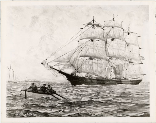 Painting of clipper ship Shooting Star. Written on back: "Builder: James O Curtis, Medford, Mass., Feb. 8, 1851. Dimensions: 171' x 35' x 18'6". Tonnage: 903 tons. Type: Extreme Clipper Ship. Full named: Shooting Star." Note on other ships of this name: A second Shooting Star, a medium clipper, was built in New York in 1859, and captured and burned by Confederate privateer Chickamauga, in 1864. A third Shooting Star was an extreme clipper built in New York under the name of Ino. This ship was renamed Shooting Star in 1867. (1927) American Clipper Ships 1833-1858. Volume 2, Malay-Young Mechanic, Salem, MA: Marine Research Society, pp. 573 OCLC: 476701653.